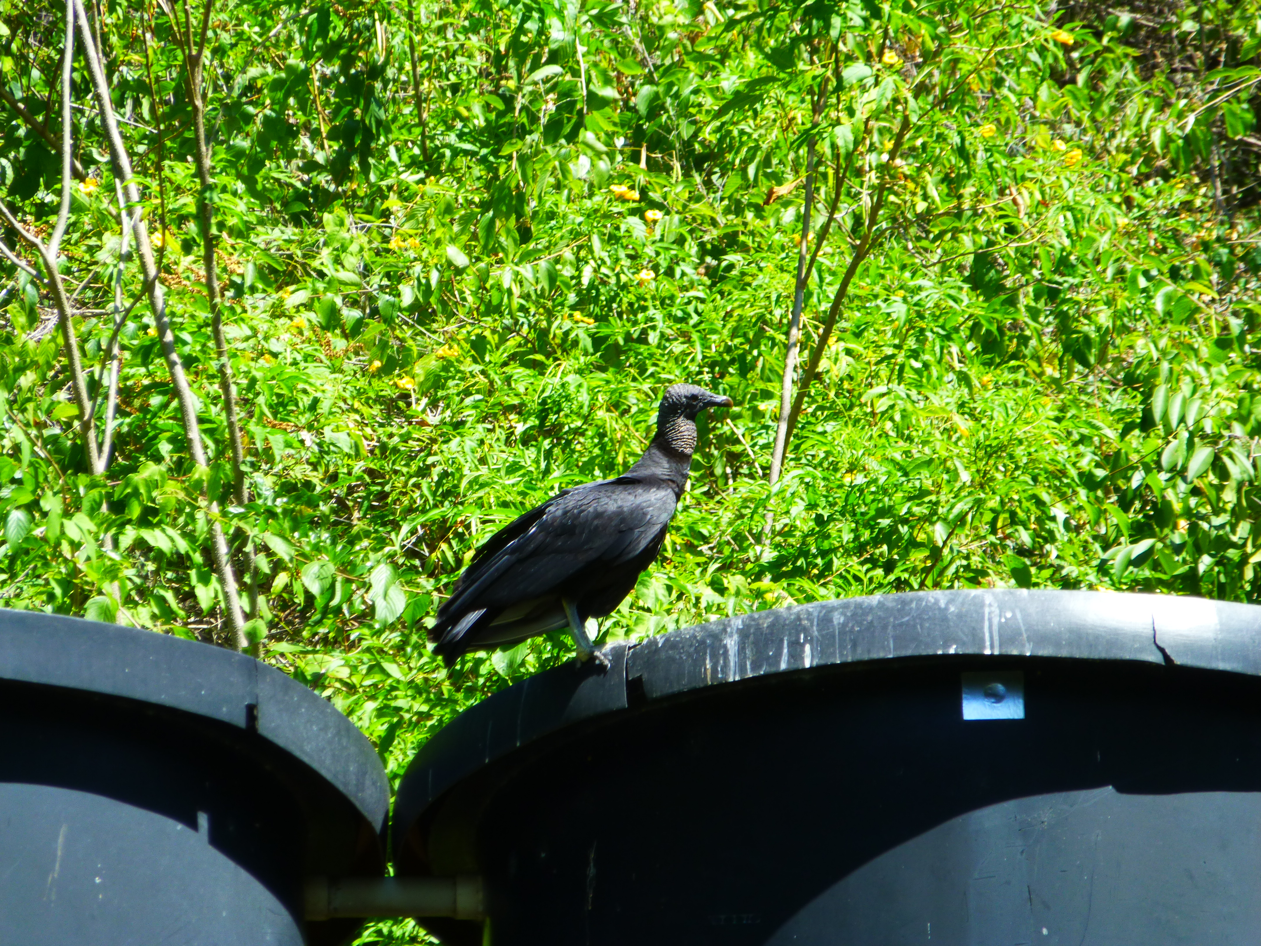 Coragyps atratus, Gaspar Grande, Diego Martin, Trinidad and Tobago. Locally called Corbeau.